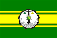 Flag of Alto Araguaia (Mato Grosso) - Copyrited by the brazilian law of Industrial Preperty (Law 9.279/ 14/05/1996)